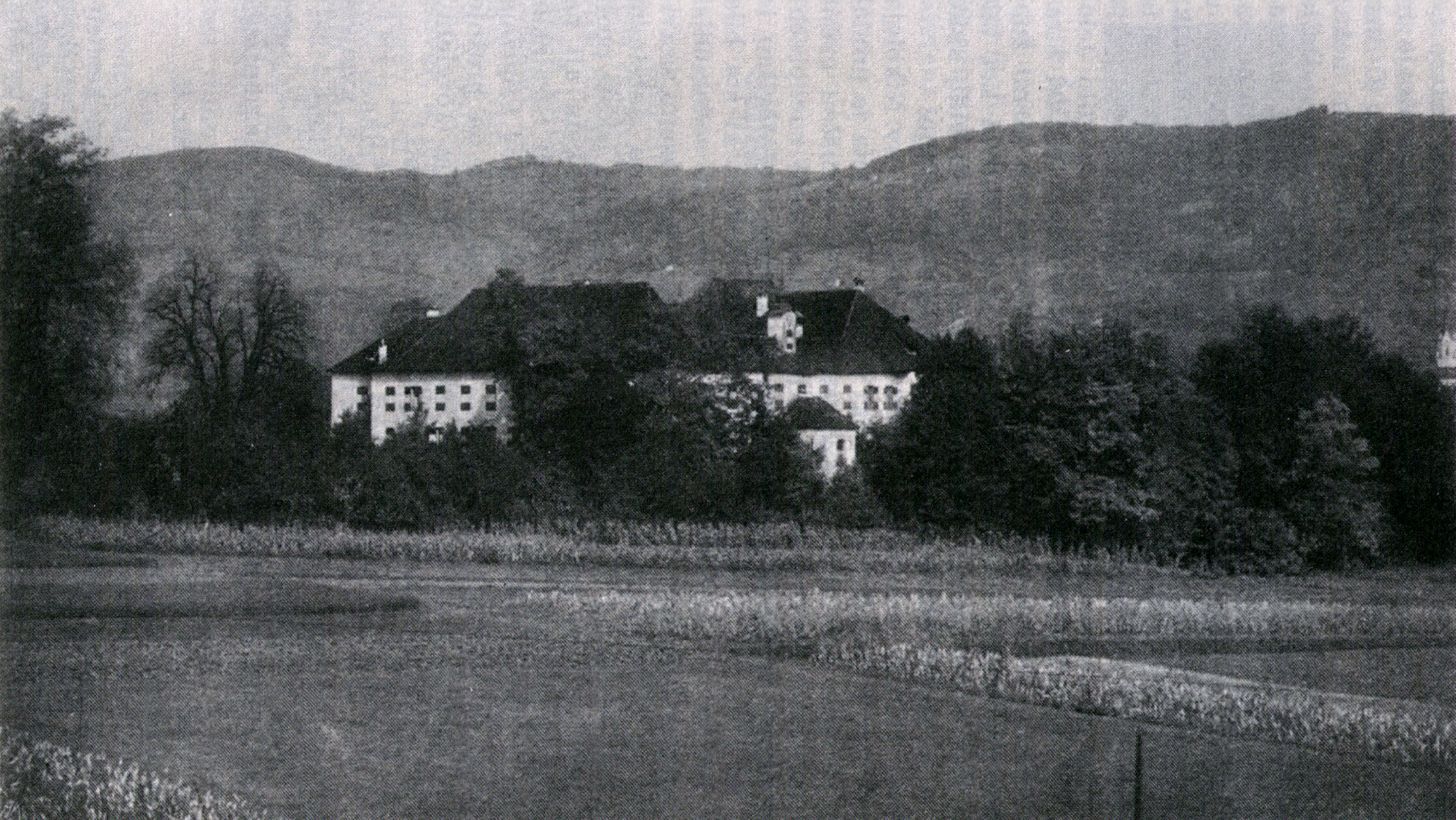 Castle Rakovnik.